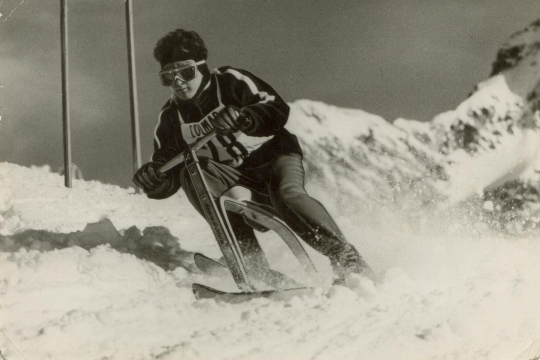 First EUROPEAN SKIBOB CHAMPION Erich Brenter (Skibob, Skibike, Snowbike)